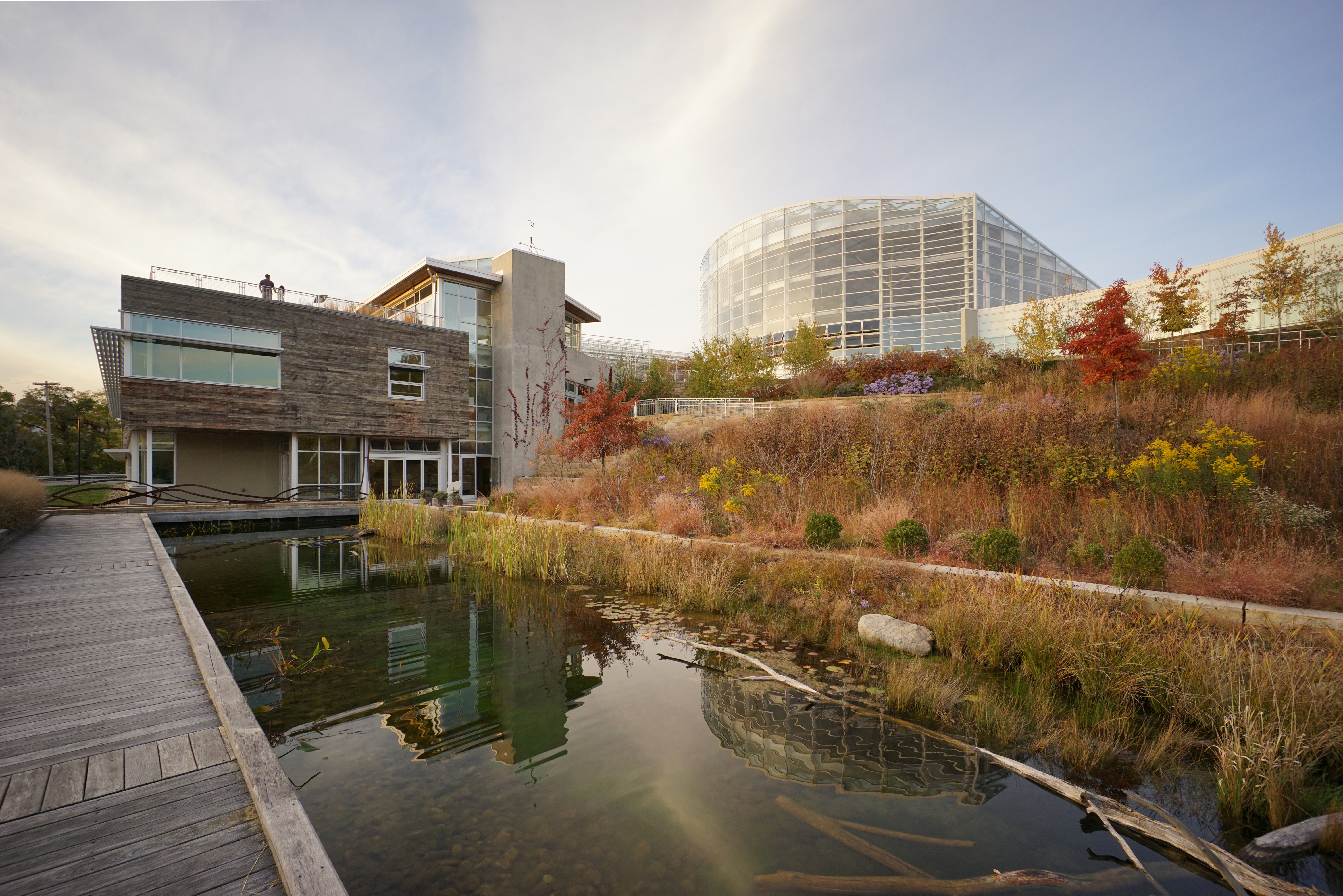 The Center for Sustainable Landscapes at the Phipps Conservatory (left) and the conservatory itself (right). The Phipps Conservatory and Botanical Gardens is a complex of buildings and grounds set in Schenley Park, Pittsburgh, Pennsylvania. Founded in 1893, the gardens serve to educate and entertain the people of Pittsburgh with formal gardens.